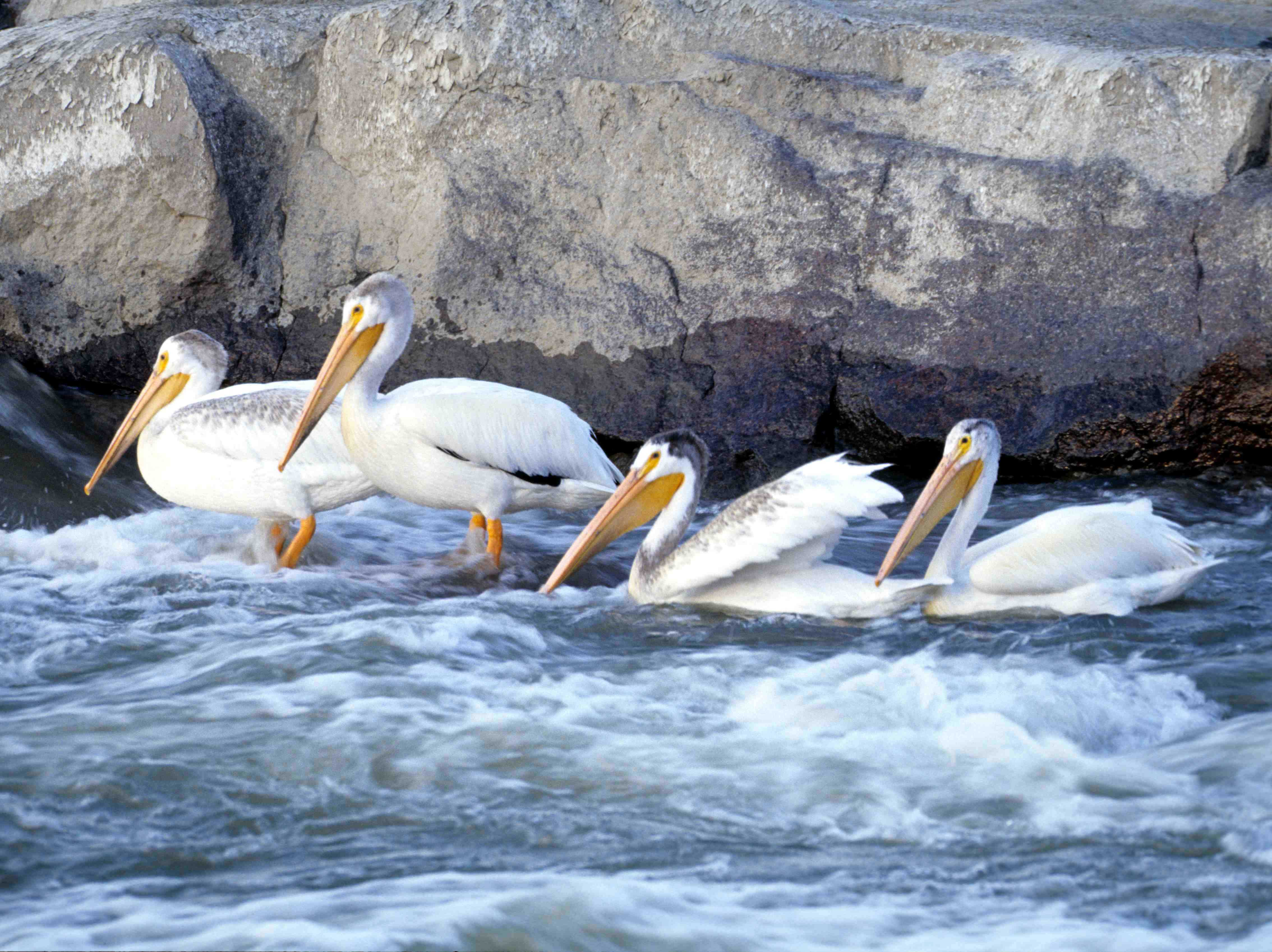 American White Pelicans (Pelecanus erythrorhynchos, Nashornpelikan) from Rapids of the Drowned (Slave River near Fort Smith, NT, Canada)